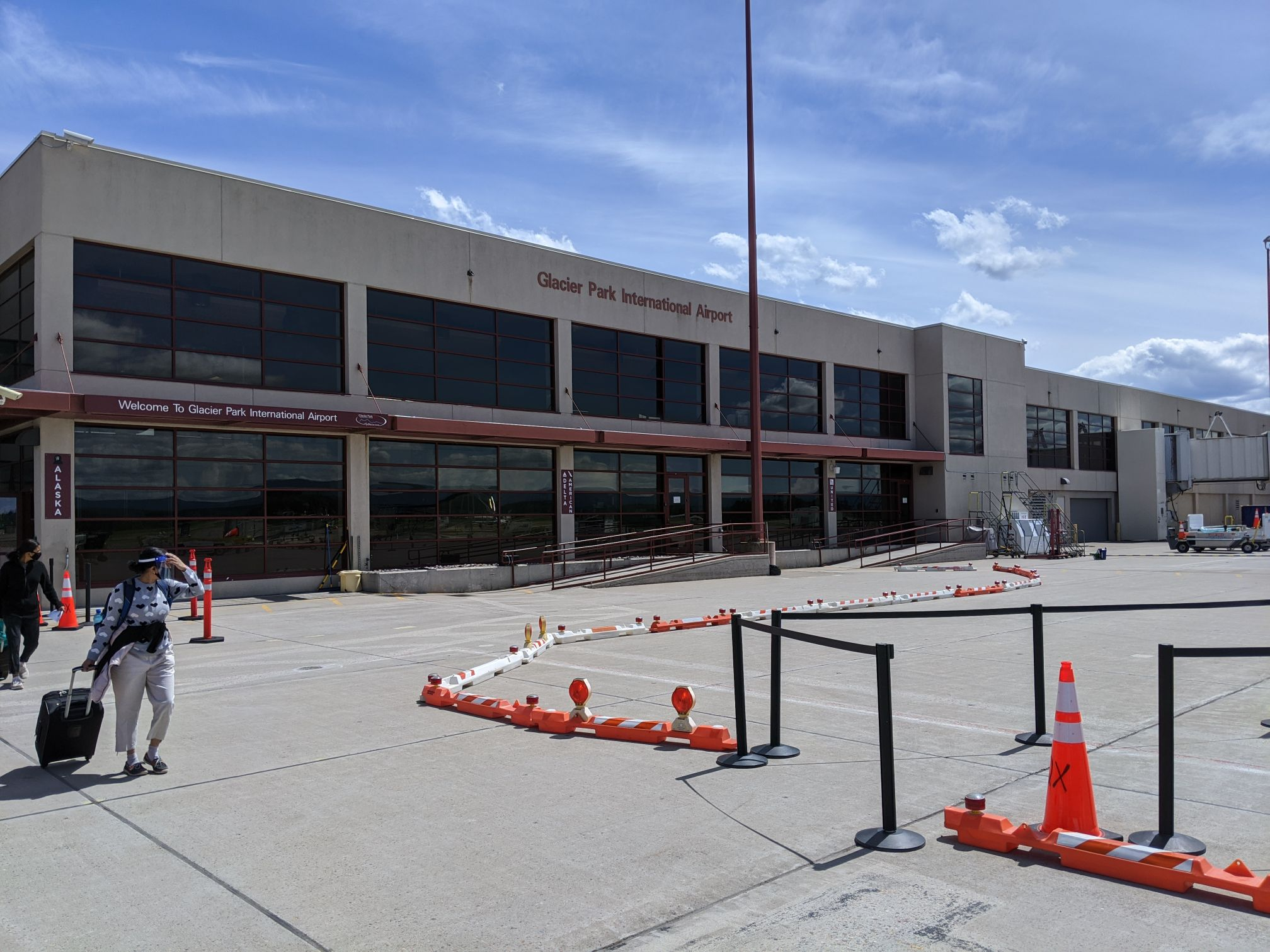 Glacier Park International Airport, Kalispell, Montana, USA